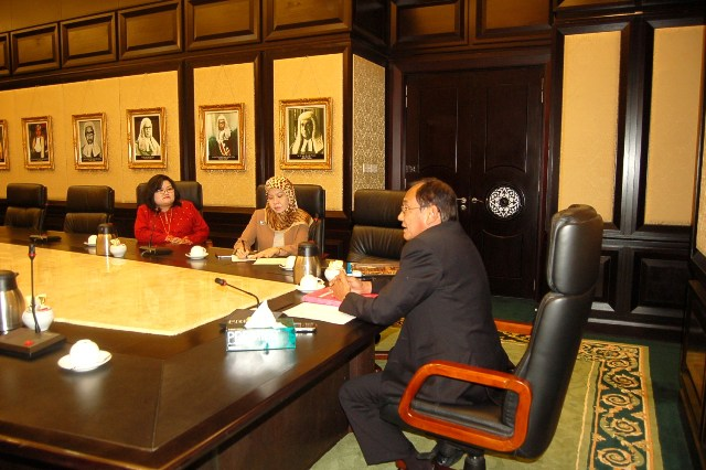 Dean of Law Faculty with Chief Justice